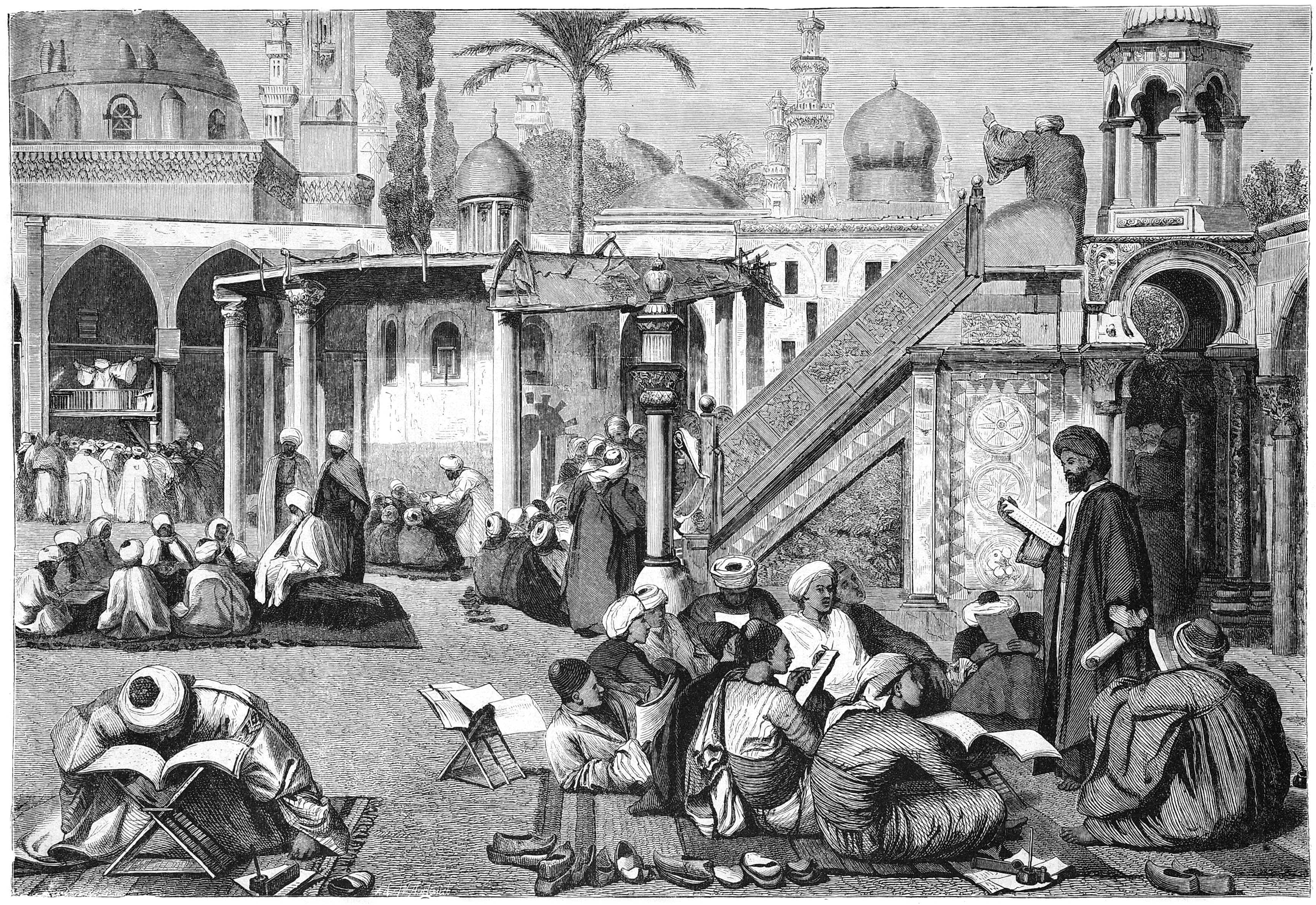 caption: "Arabische Universität in Kairo. Nach der Natur aufgenommen von W. Gentz."